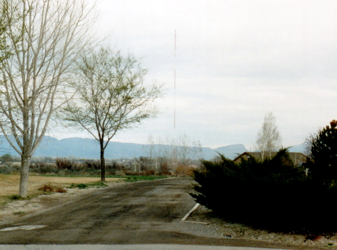 The radio broadcast tower for KJOL 620 AM and KTMM 1340 AM Grand Junction, Colorado between Fruita and Grand Junction, Colorado.